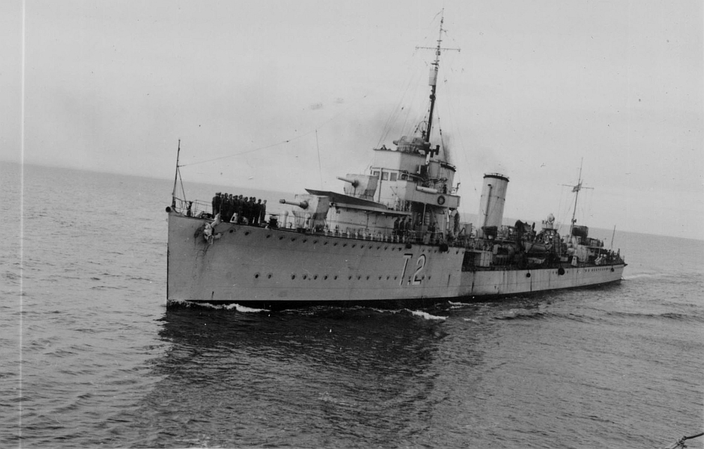 Destroyer ARA Juan de Garay (D-2), Churruca I class (1925)